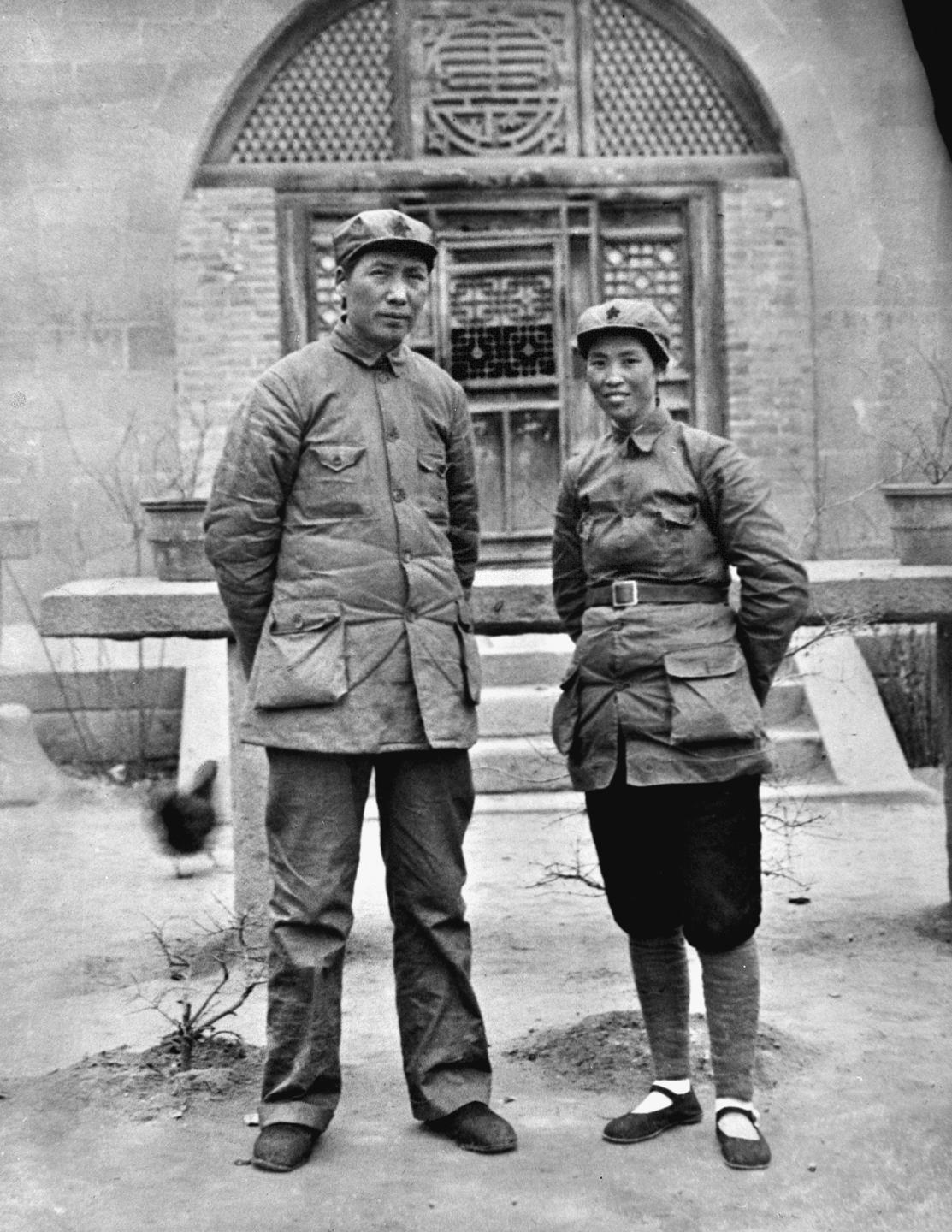 Mao and third wife He Jijen. 毛澤東和他的第三任妻子賀子珍，攝於一九三­七年延安。